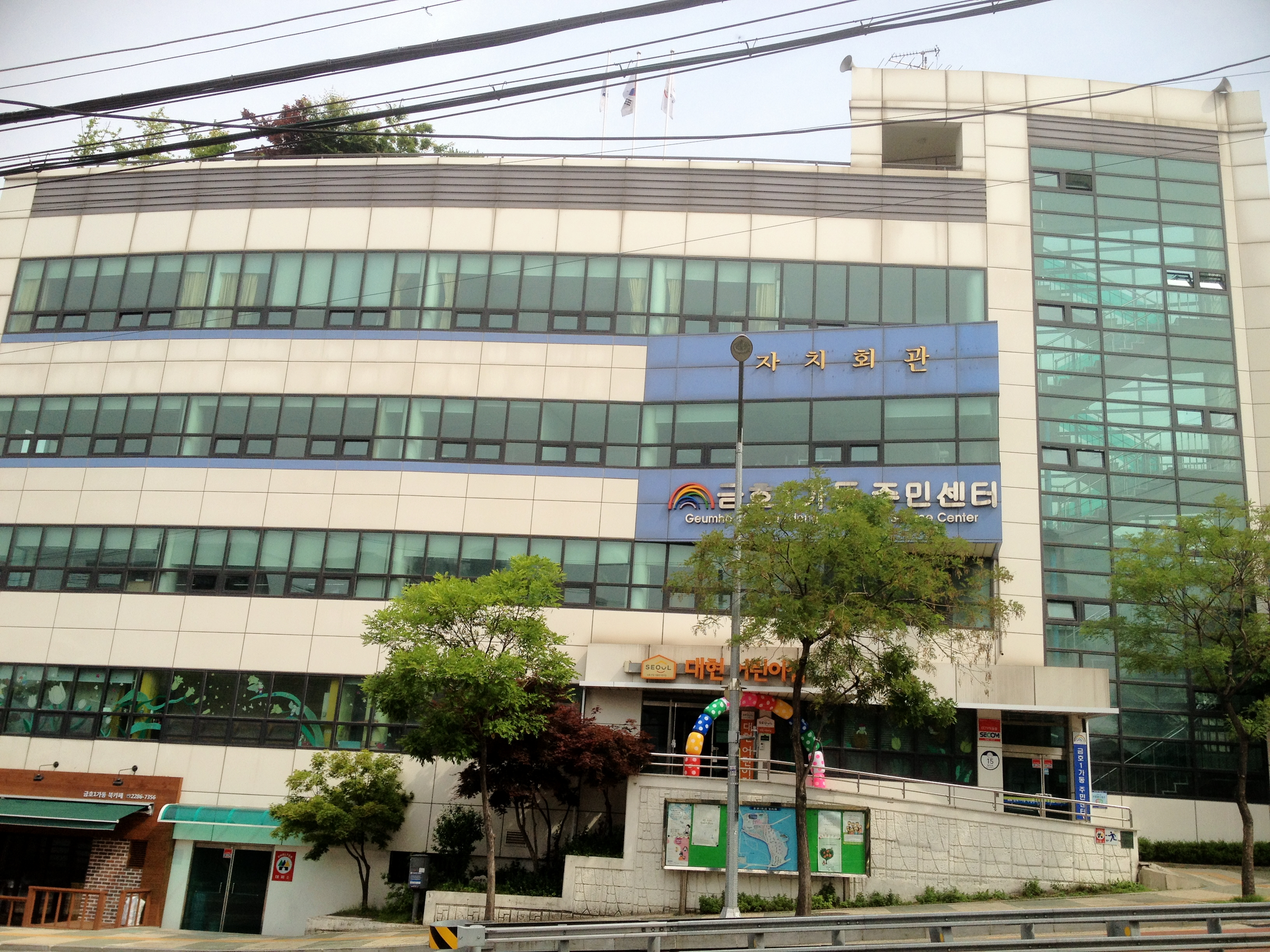 Geumho 1-ga-dong Comunity Service Center(Seongdong-gu)